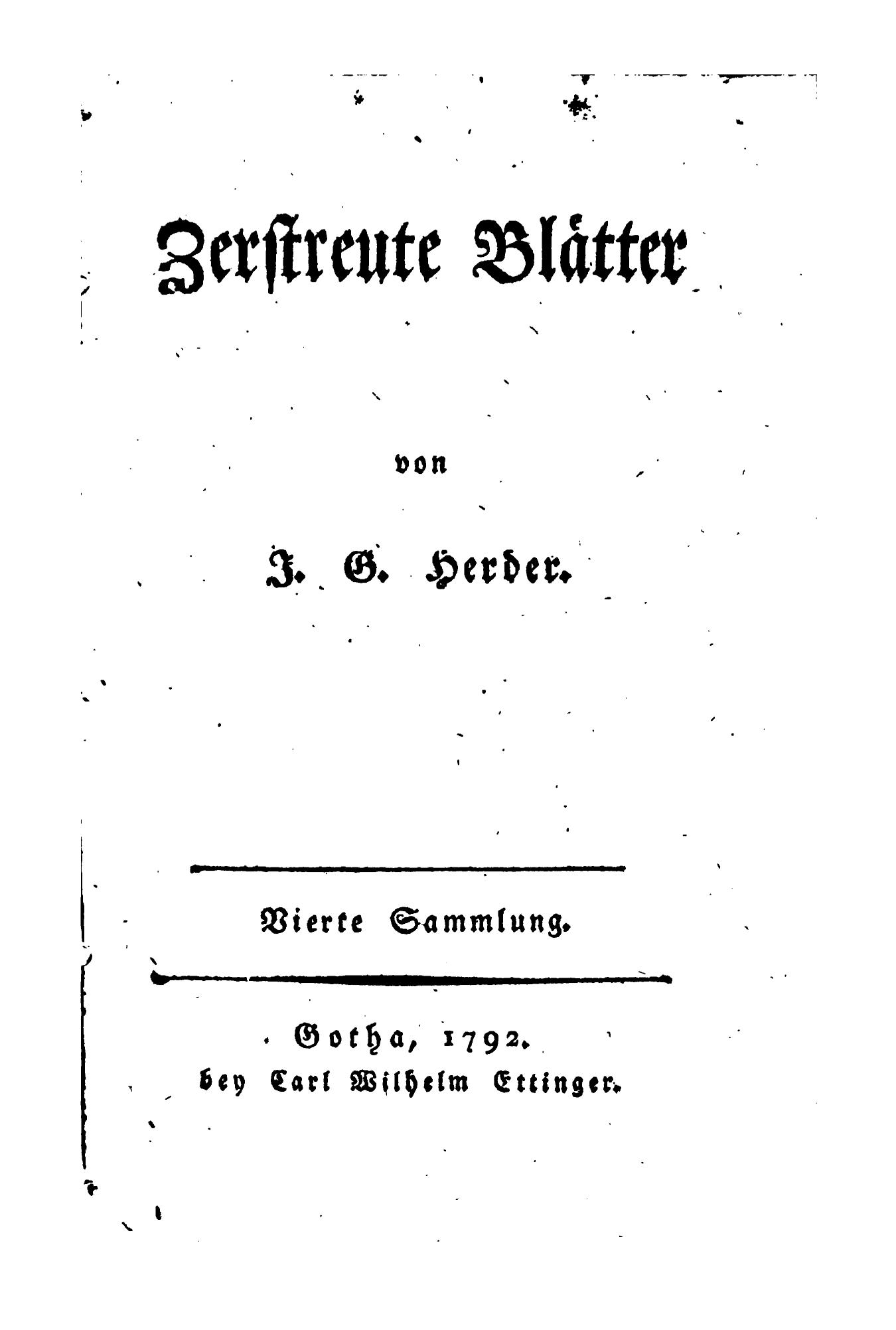 This is a scan of the historical document: Zerstreute Blaetter. Vierte Sammlung